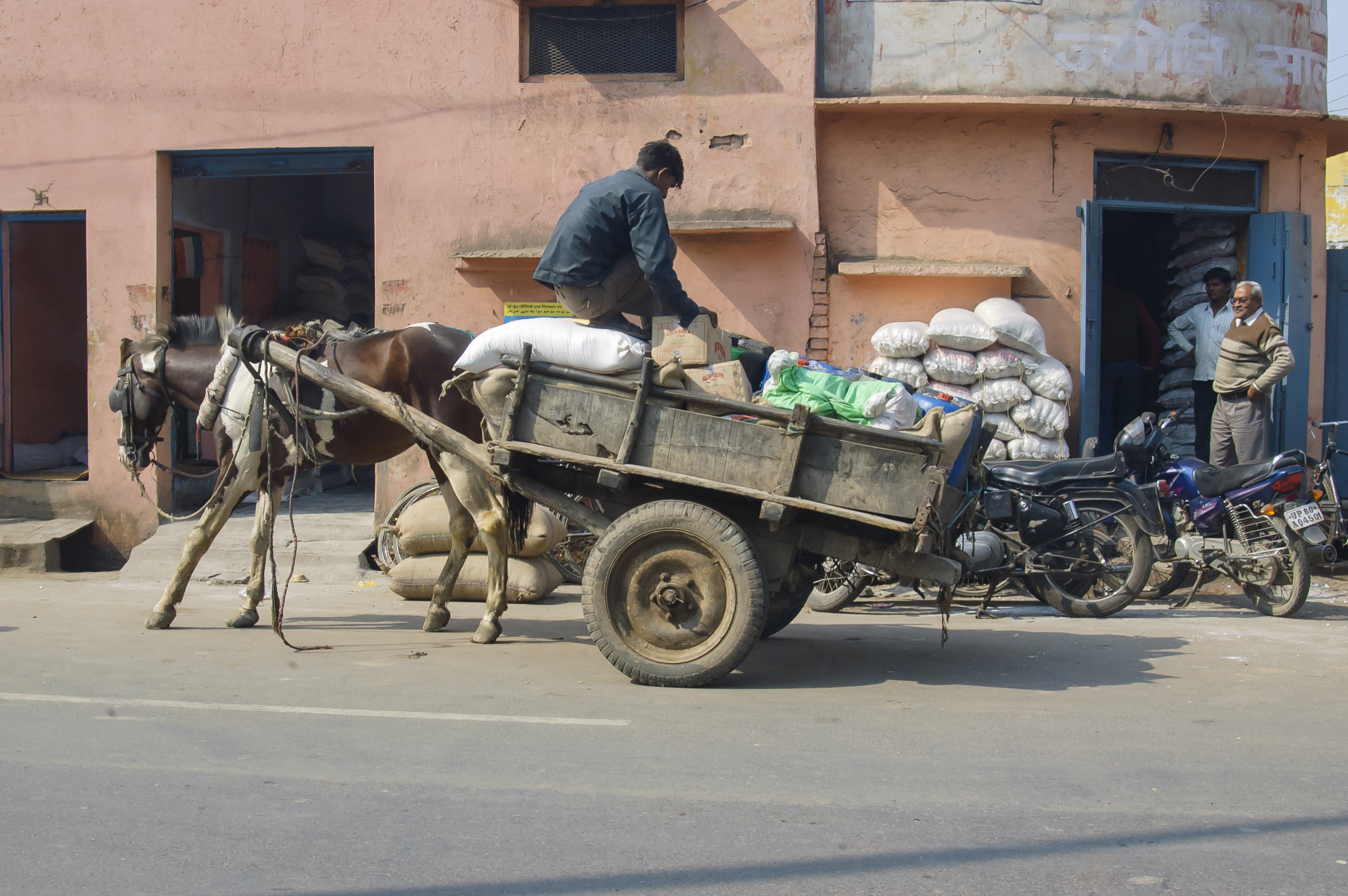 A street scene in Agra, India